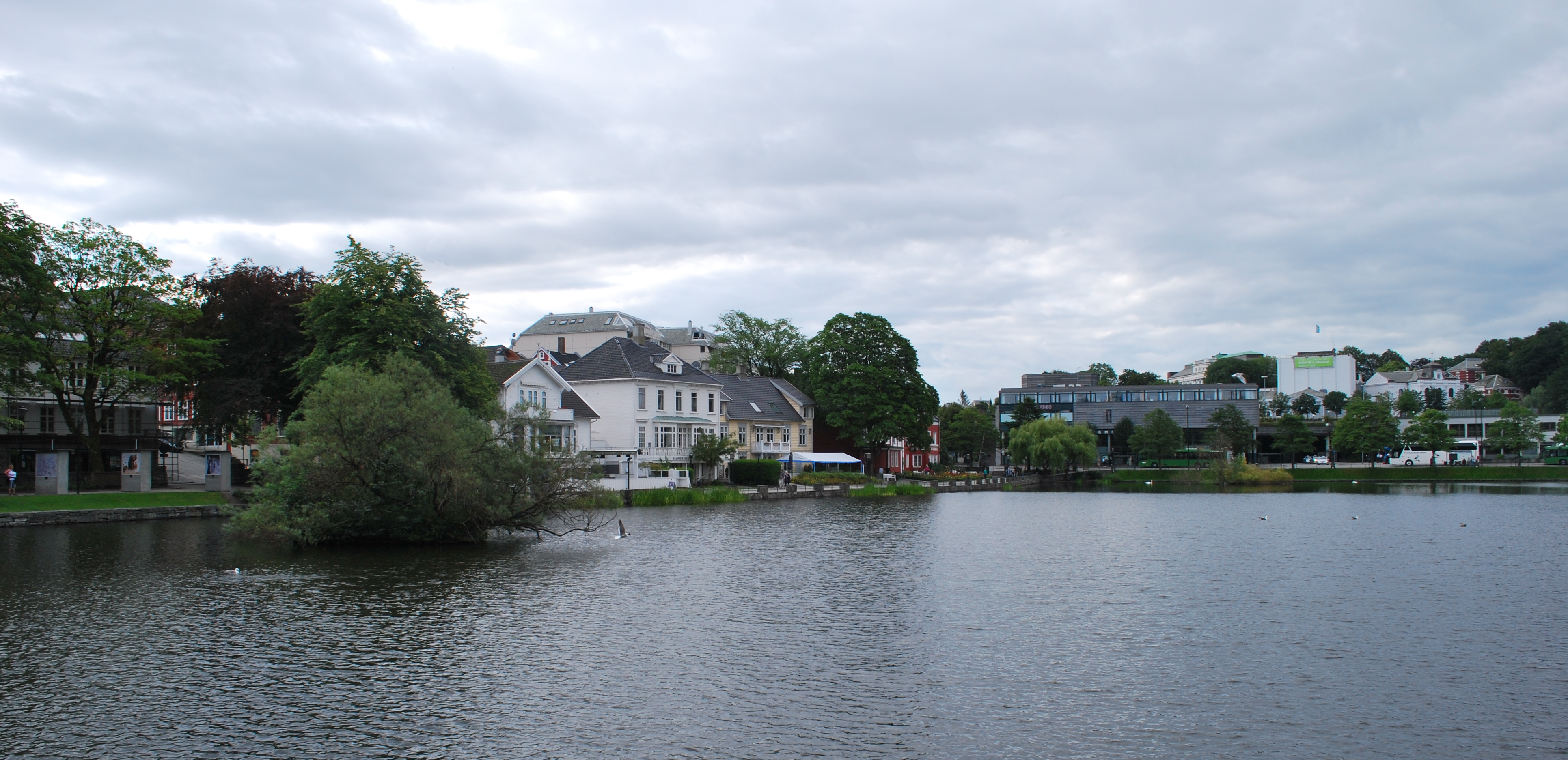 Byparken by Breiavatnet, Stavanger, Norway